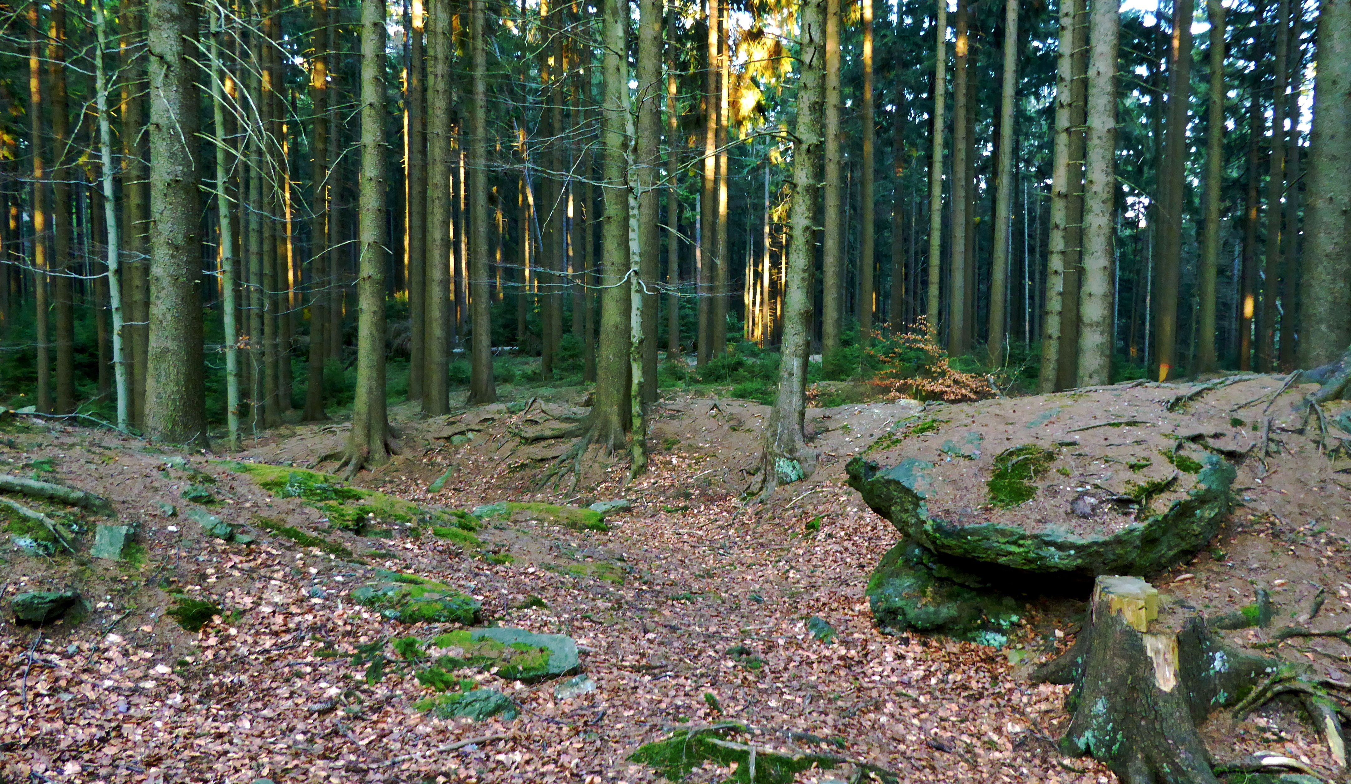 Rock group called Petrified Chateau, natural monument of Žďár Hills. A tourist trail of the Czech Tourists' Club (blue signage) to the locality. View of a moat above a group of rocks. Příkop was part of the fortification, originally built in prehistoric times, also used as a fortification in the Middle Ages. Photo-location: Czechia, Vysočina Region, the town of Svratka, a group of rocks called Petrified Chateau (azimuth 55°).